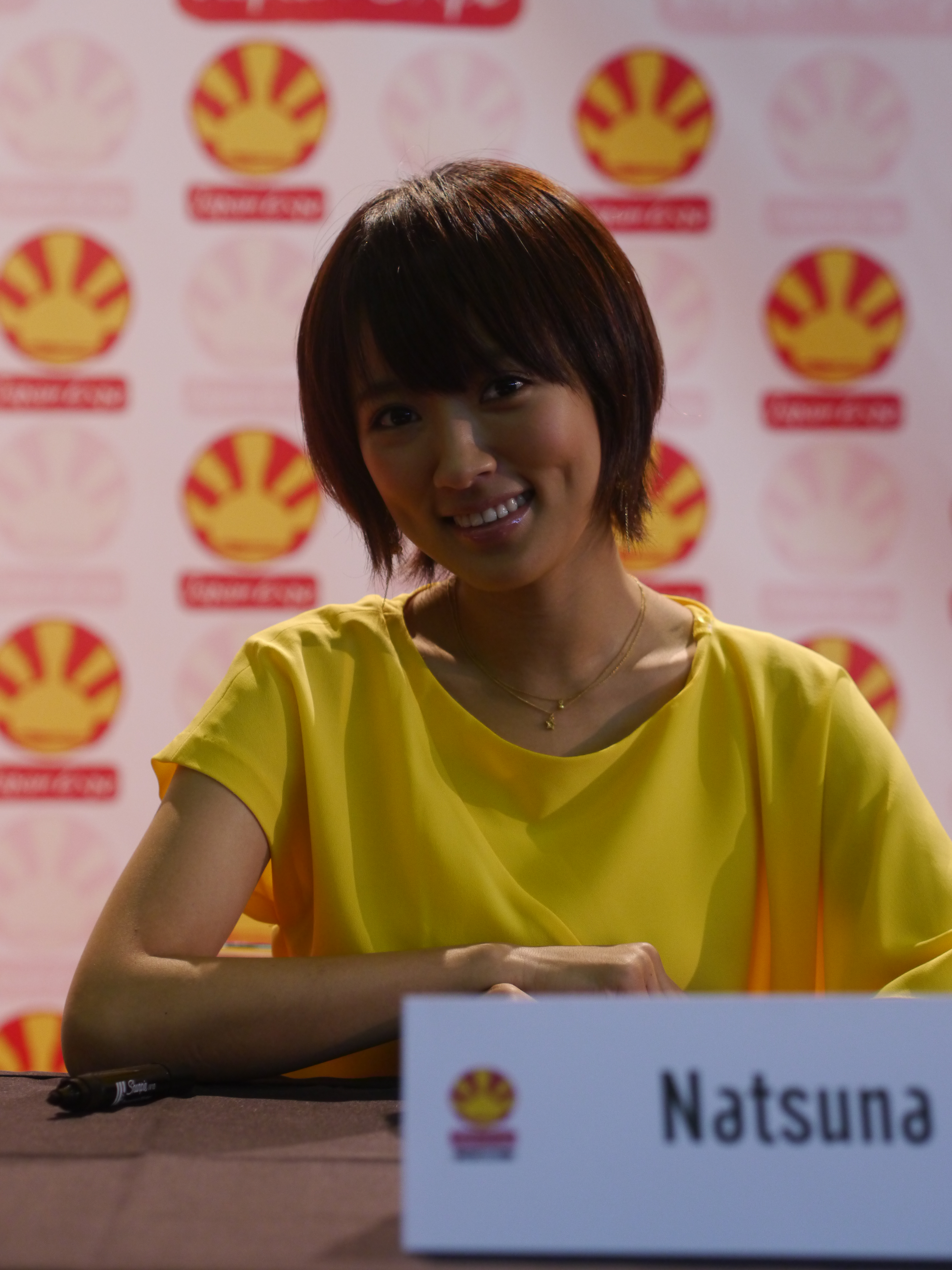 Japan Expo Festival, 14th impact